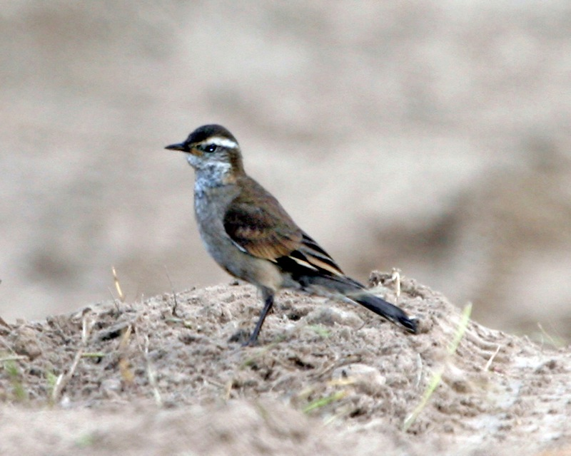 Bar-winged Cinclodes (Cinclodes fuscus), Entre Rios, Argentina